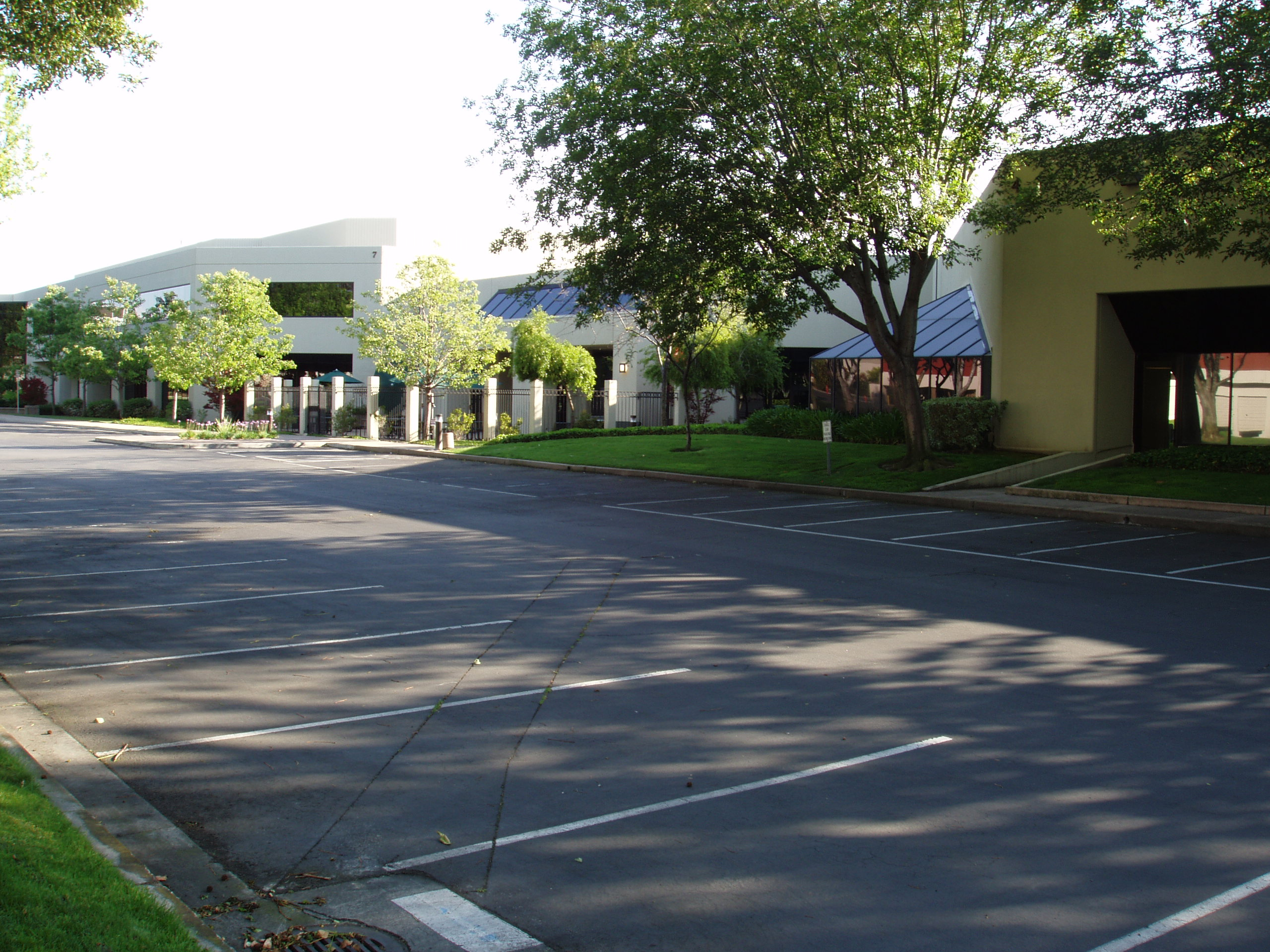 Adaptec Headquaters offce